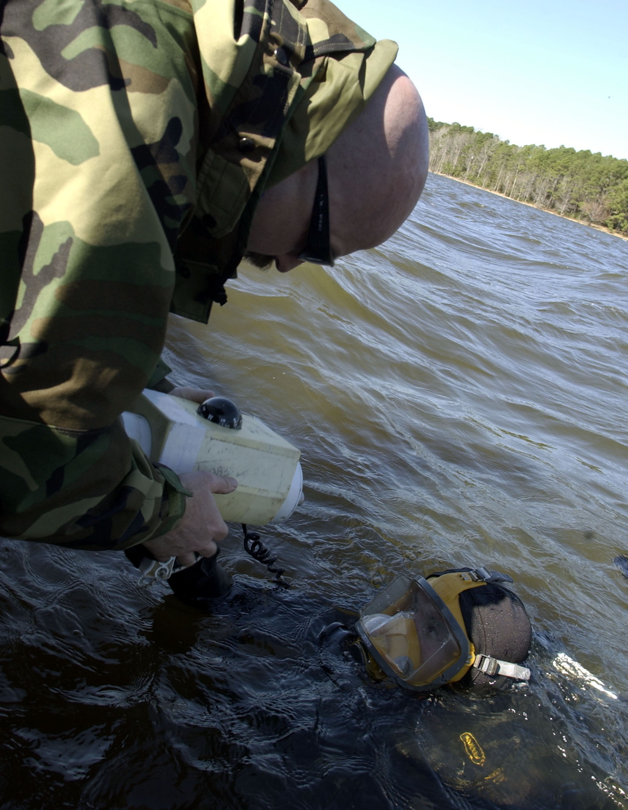 Toledo Bend Reservoir, Texas, (Feb. 23, 2003) -- Boatswain’s Mate 2nd Class Arick Hiles, a naval reservist from Mobile Diving and Salvage Unit Two (MDSU-2), Cleveland Detachment, hands a compact sonar unit to Damage Controlman First Class Ralph Leete, also from MDSU-2. The sonar unit, an AN/PQS-2A, is a handheld sonar device used to aid in the search of the Toledo Bend Reservoir for debris from the Space Shuttle Columbia. Navy Divers, as well as divers from the Houston Police Department and the Environmental Protection Agency are tirelessly searching the murky waters of the reservoir for further debris of the shuttle Columbia. U.S. Navy Photo by Chief Photographer’s Mate Eric J. Tilford, Fleet Combat Camera, Atlantic. (RELEASED)